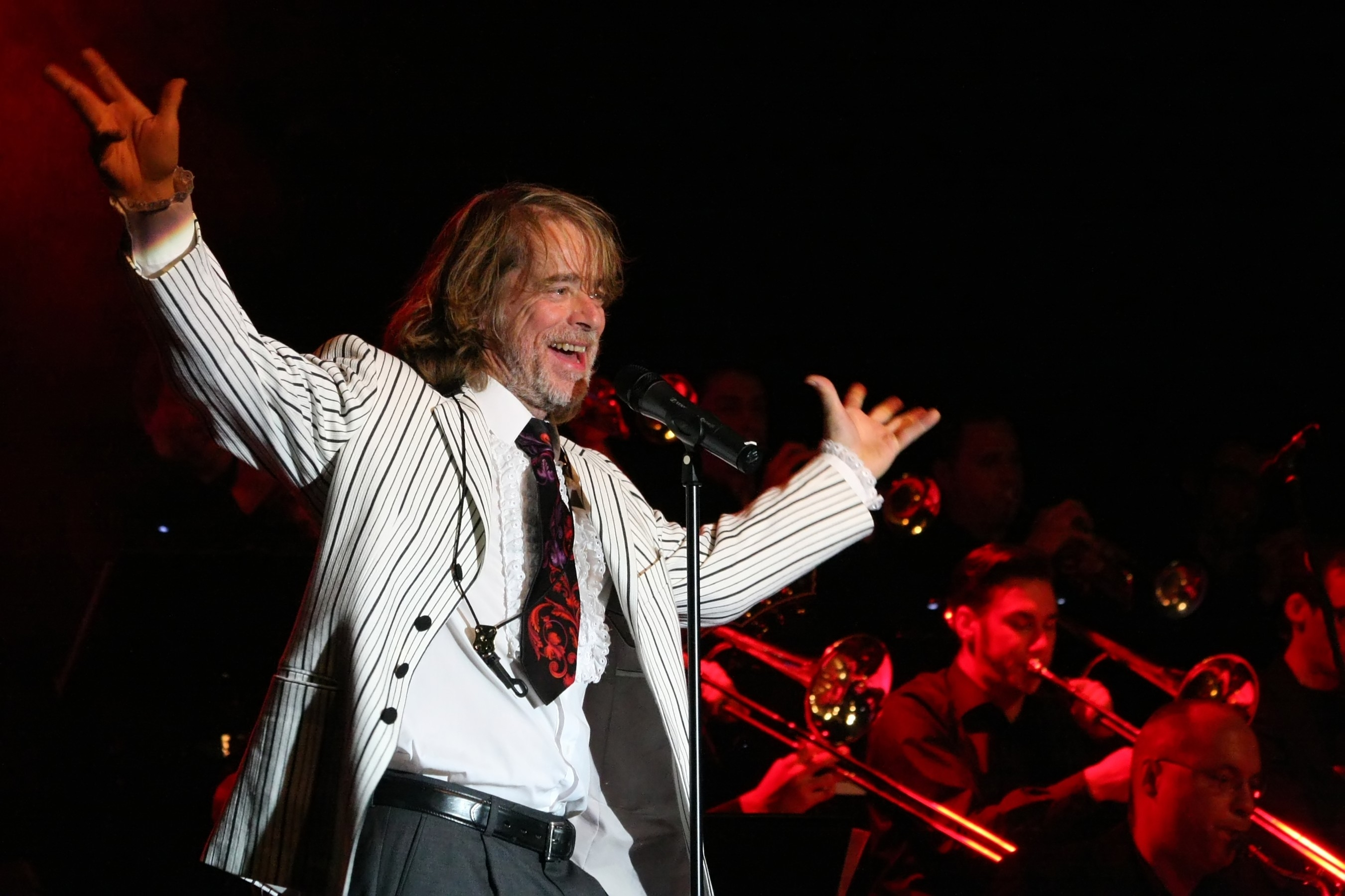 Helge Schneider performing in Uhingen; EXIF: 120mm, 1/200s, f/6.3, 3200 iso